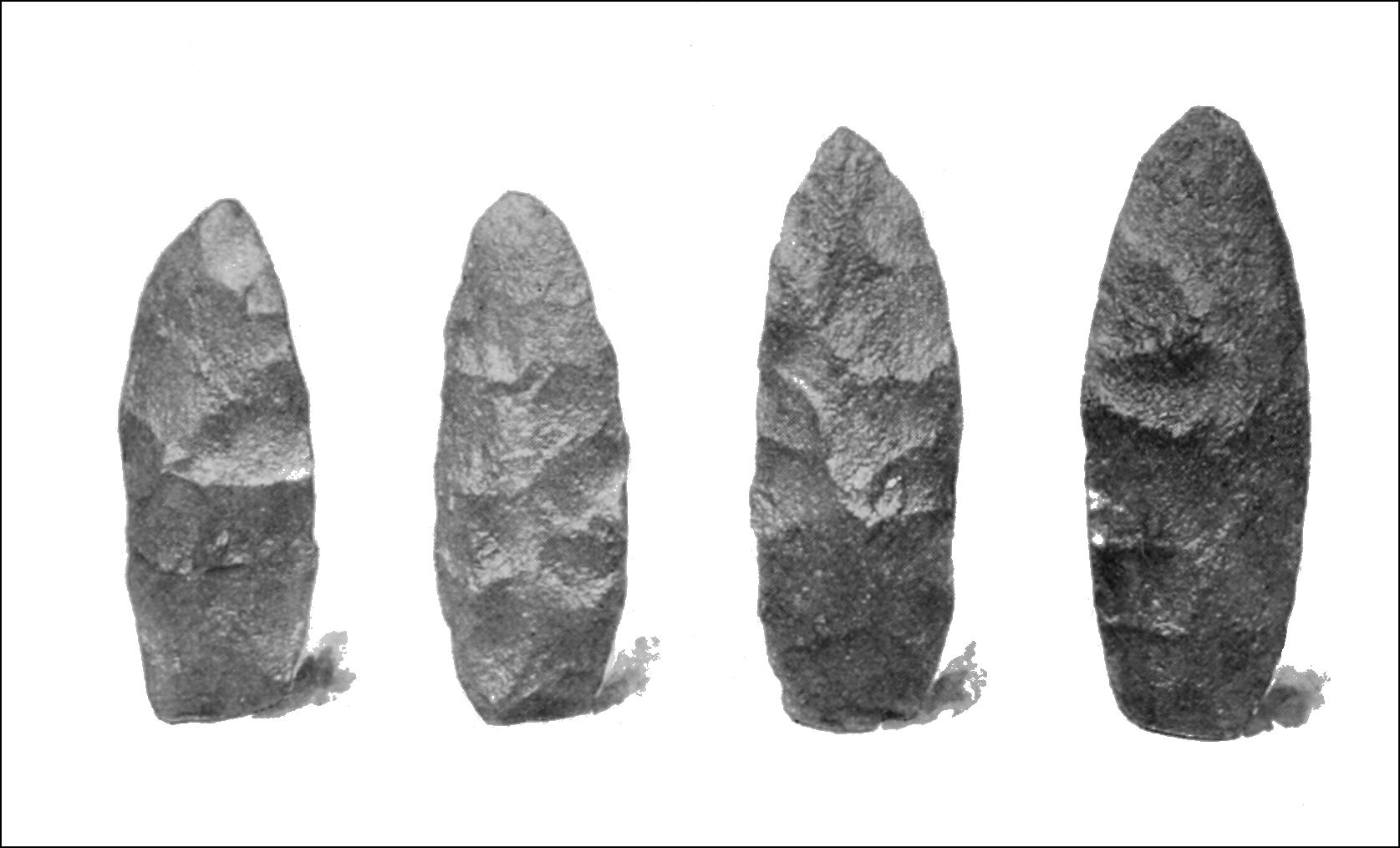 Cache blades from Bridge Valley, Pa.